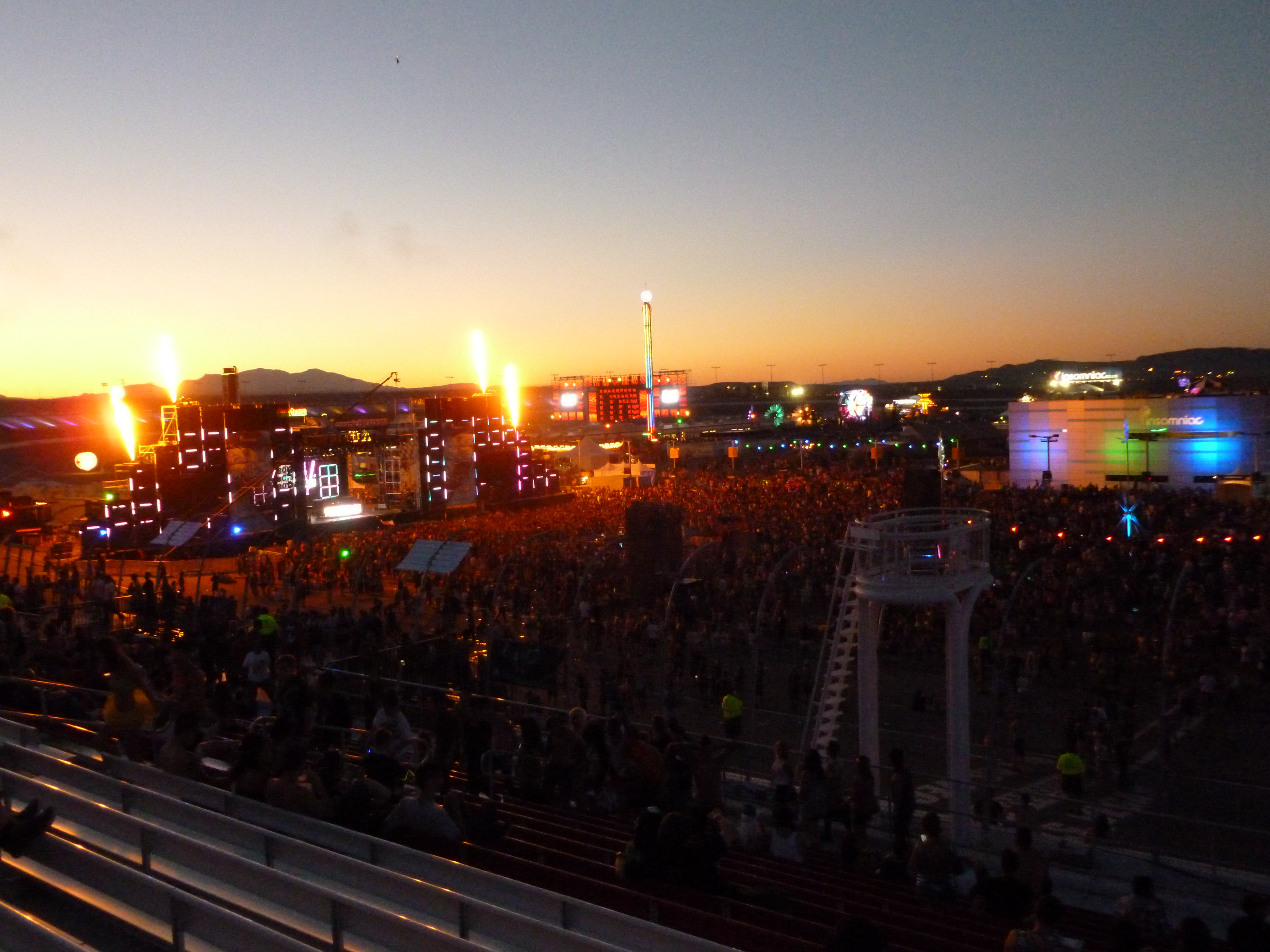 Electric Daisy Carnival 2011 in Las Vegas. cosmicMEADOW stage in the front, kineticFIELD in the back.